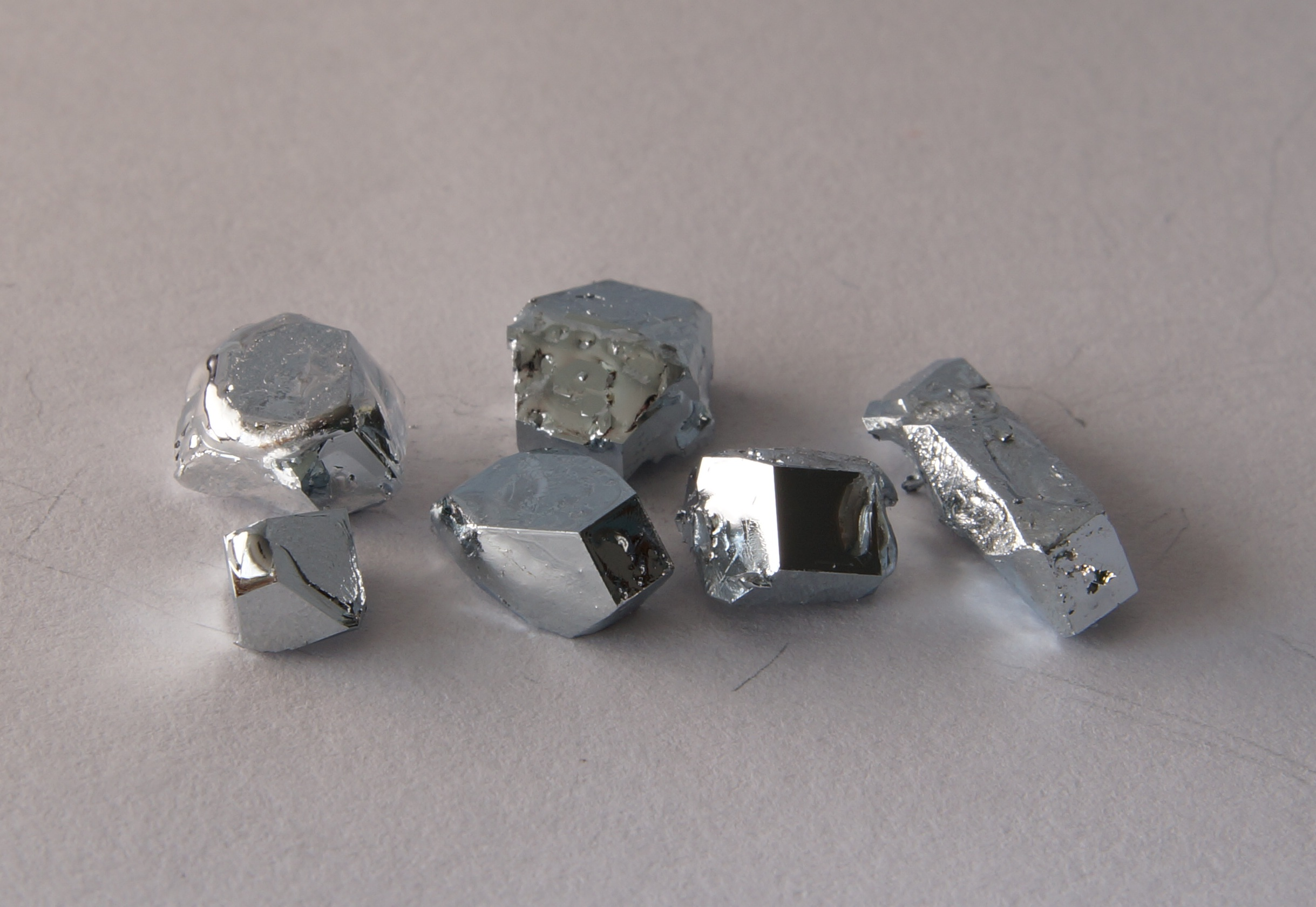 Crystals of gallium metal obtained from gallium supersaturated solution. Made in home conditions